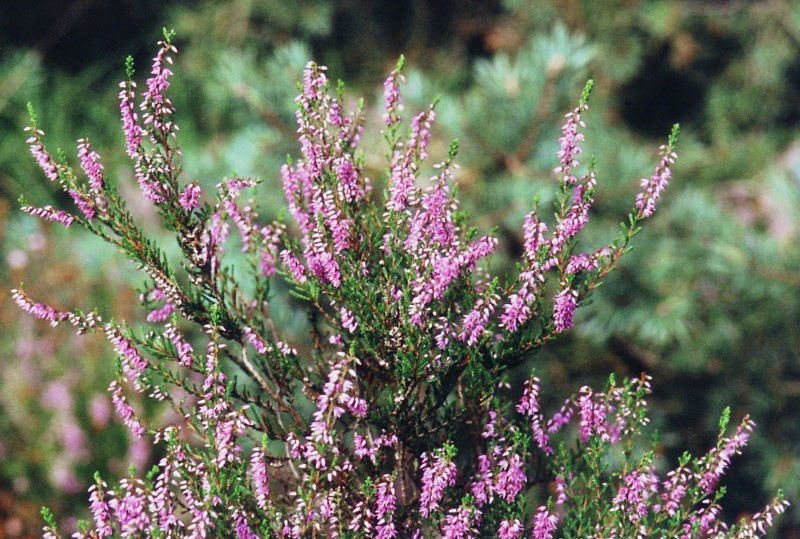 Flowering Calluna vulgaris in Germany